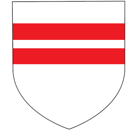 Redrawing of the family crest of the baronets Mainwaring of Over Peover taken from 'Genealogical and Heraldic History of the Extinct and Dormant Baronetcies of England, Ireland, and Scotland' by Sir Bernard Burke and John Burke (1844). The heraldic description is "Arms - Argent, two bars, gules".